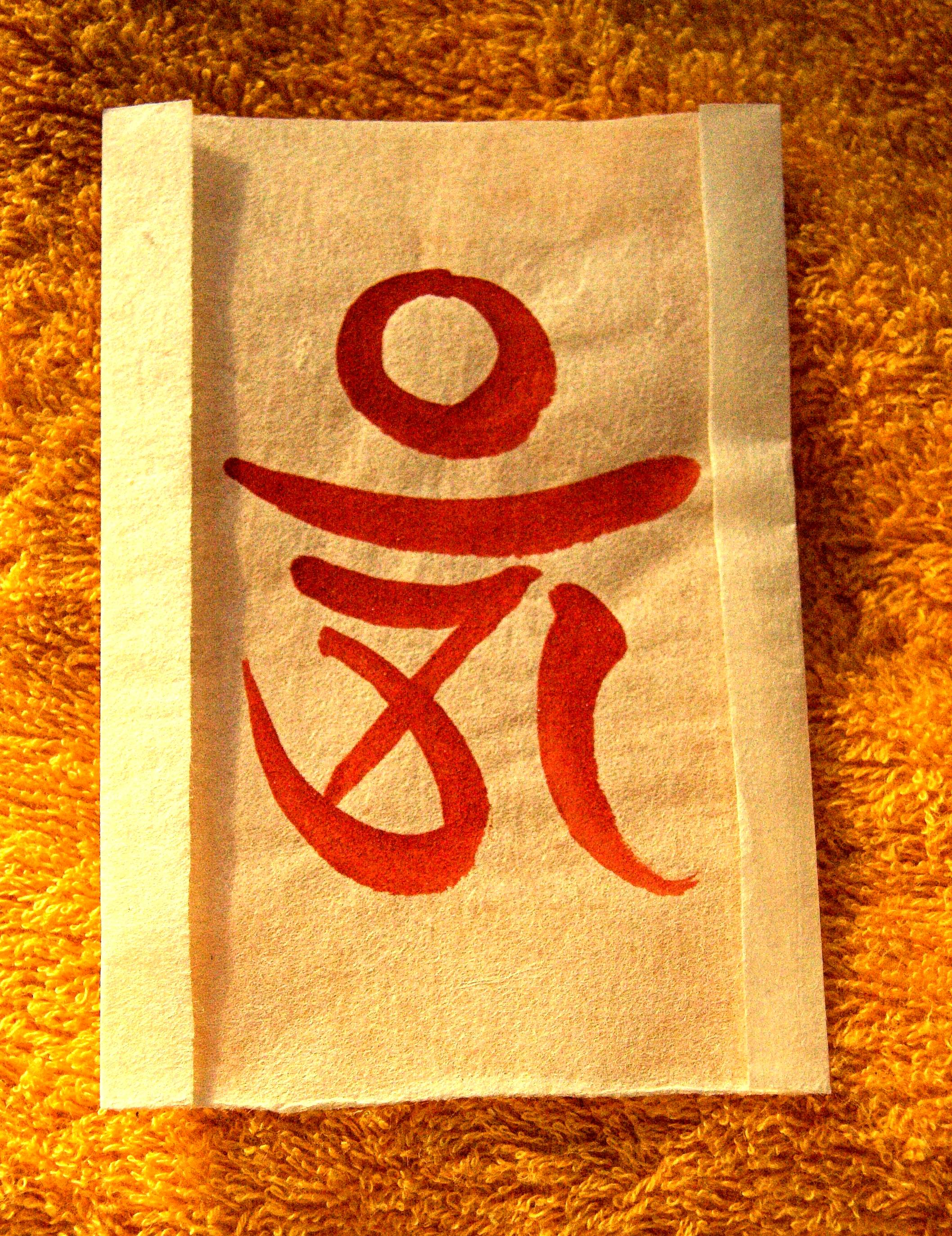 The Korean monk's caligraphy for the syllable om, aum. Siddham. Mantra. Design.